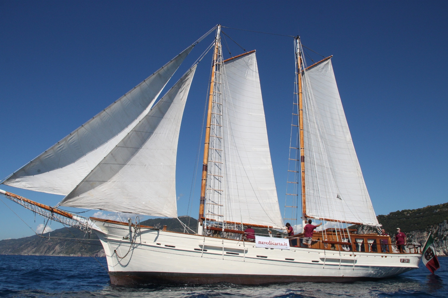 The Italian schooner 'Oloferne' under sail.